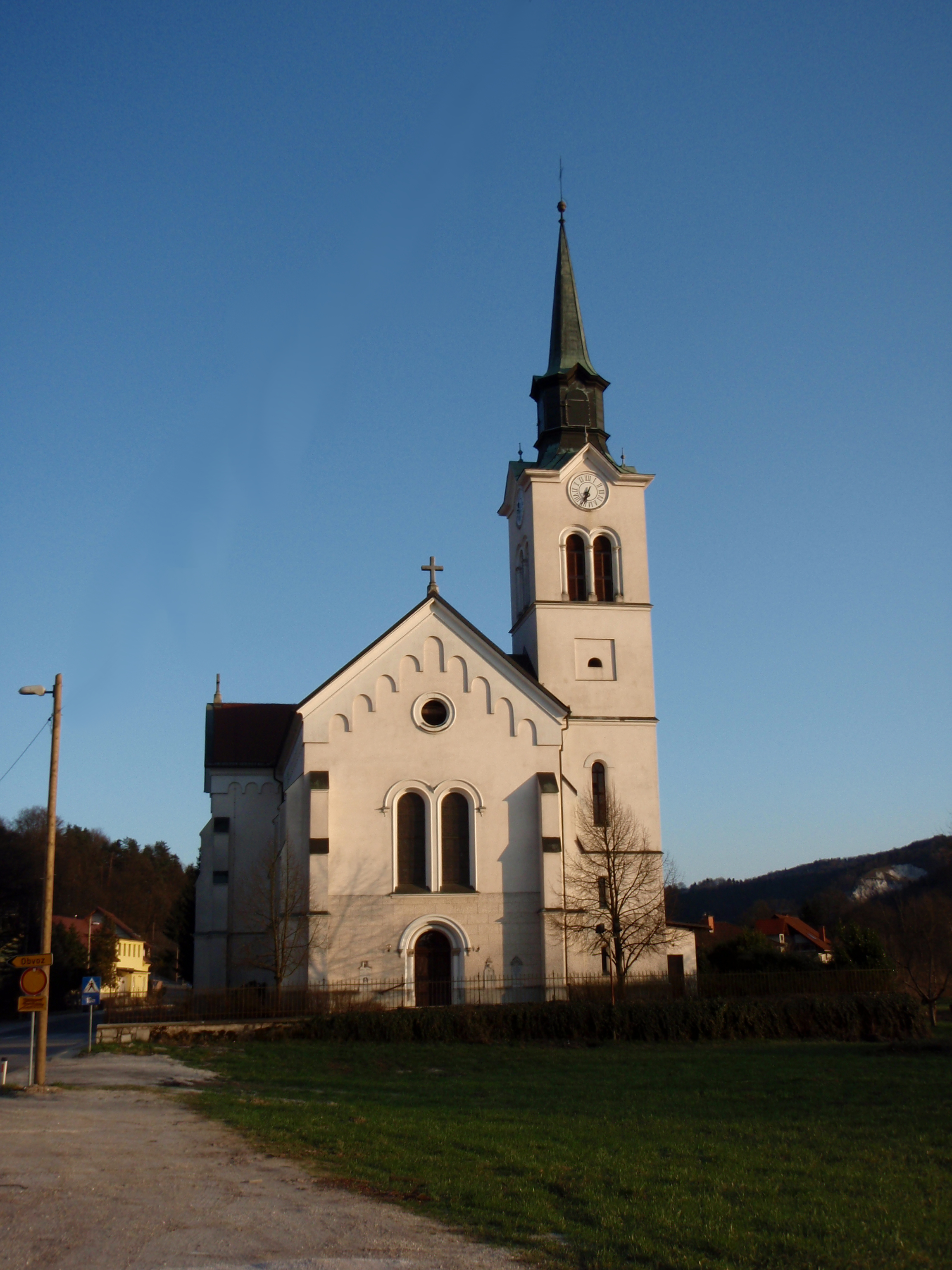 Saint Leonard's Church in Sostro, Ljubljana (parish church of Sostro, located at Sostrska 1, 1261 Ljubljana-Dobrunje, Slovenia)